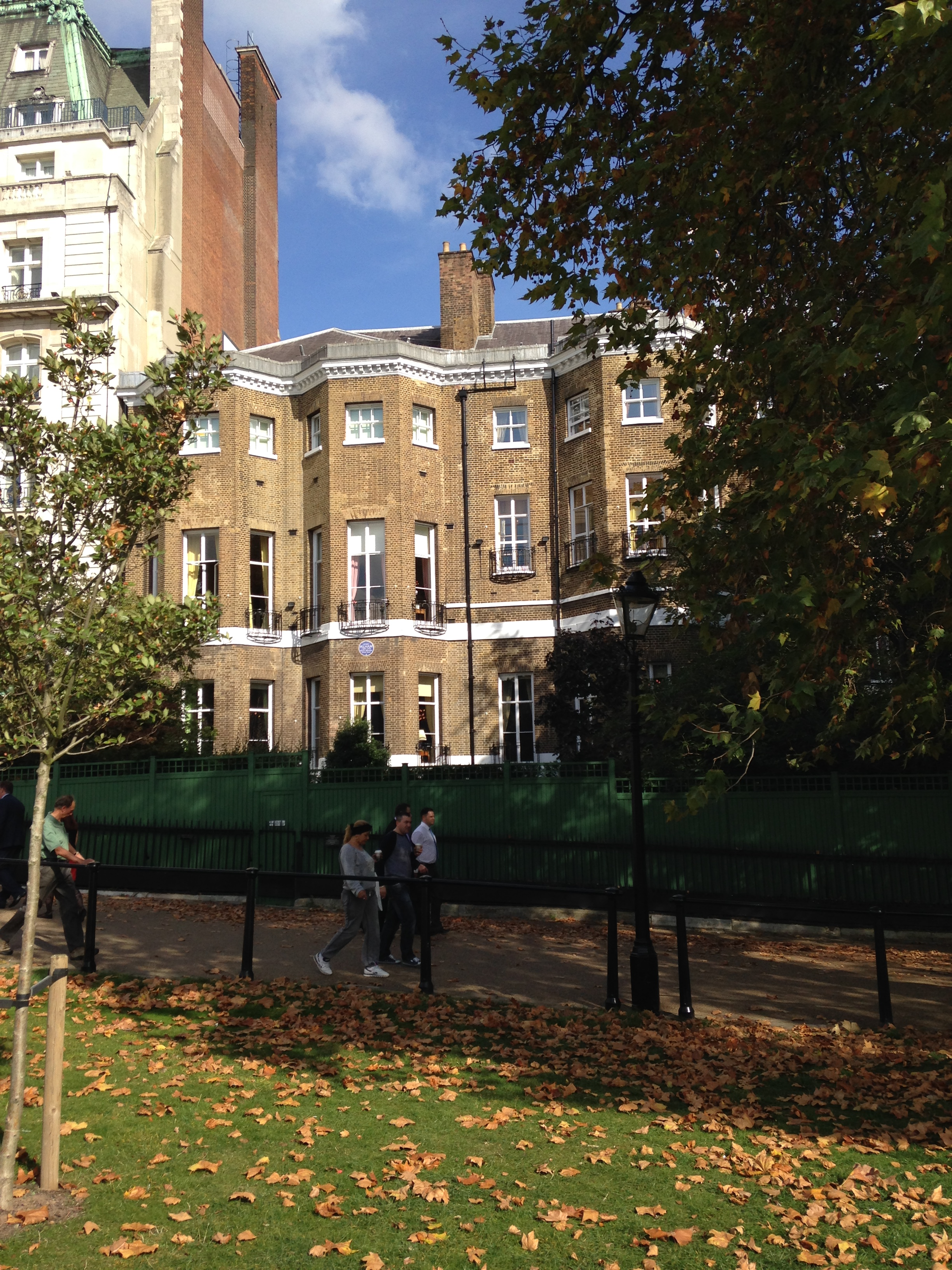 The west front of 22 Arlington Street, St James's, SW1A 1RW from Green Park.